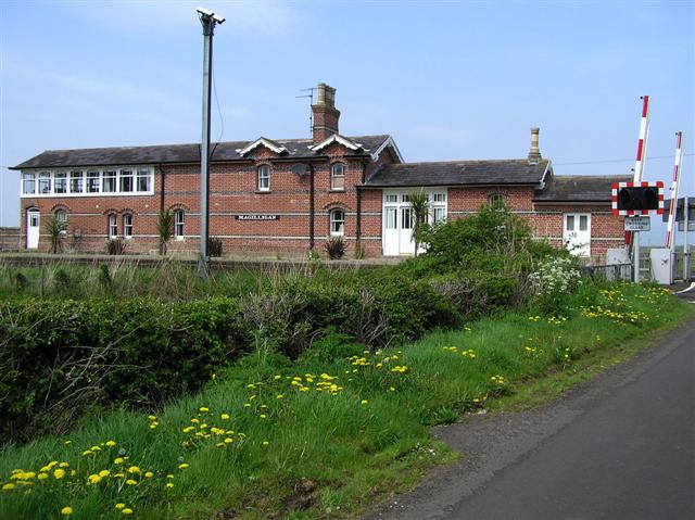 Magilligan Railway Station This is now a private dwelling with the added bonus of trains passing by at frequent intervals. This is one station where the train will not be stopping.